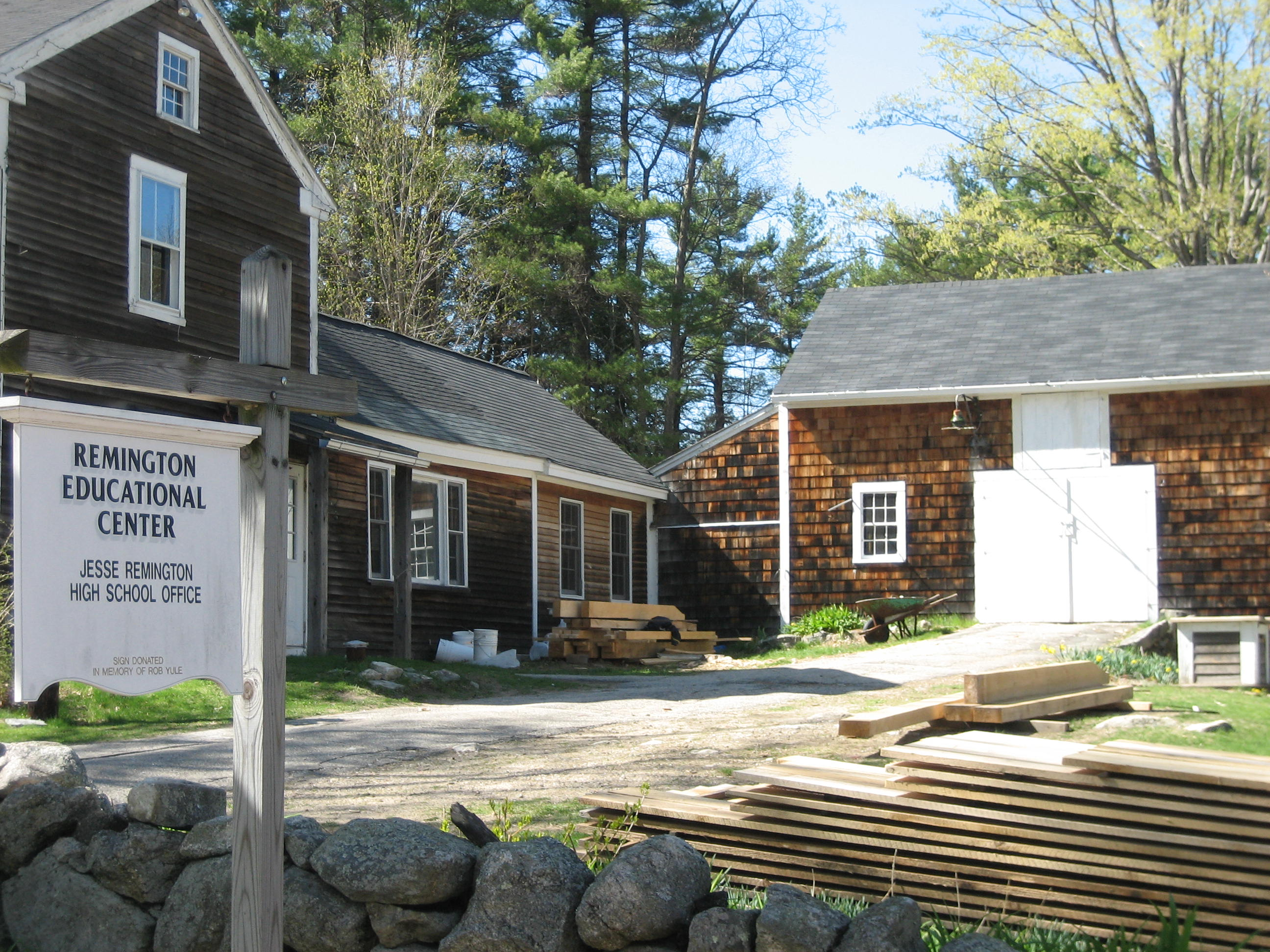 A picture I took of my school